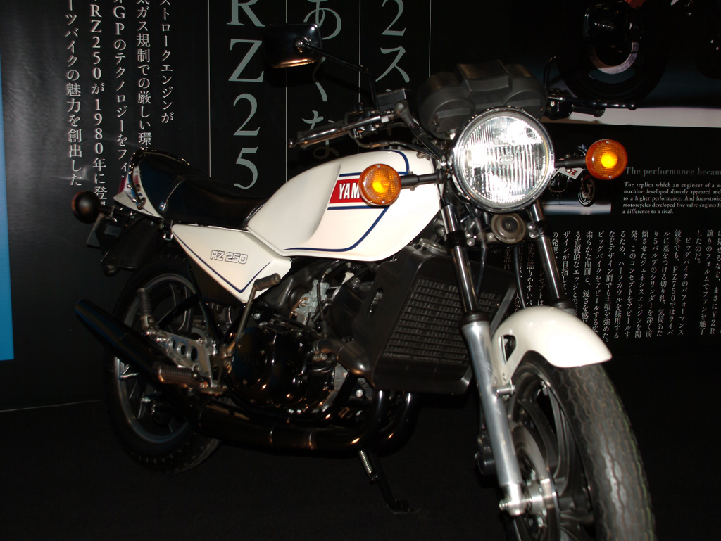 Yamaha RZ250